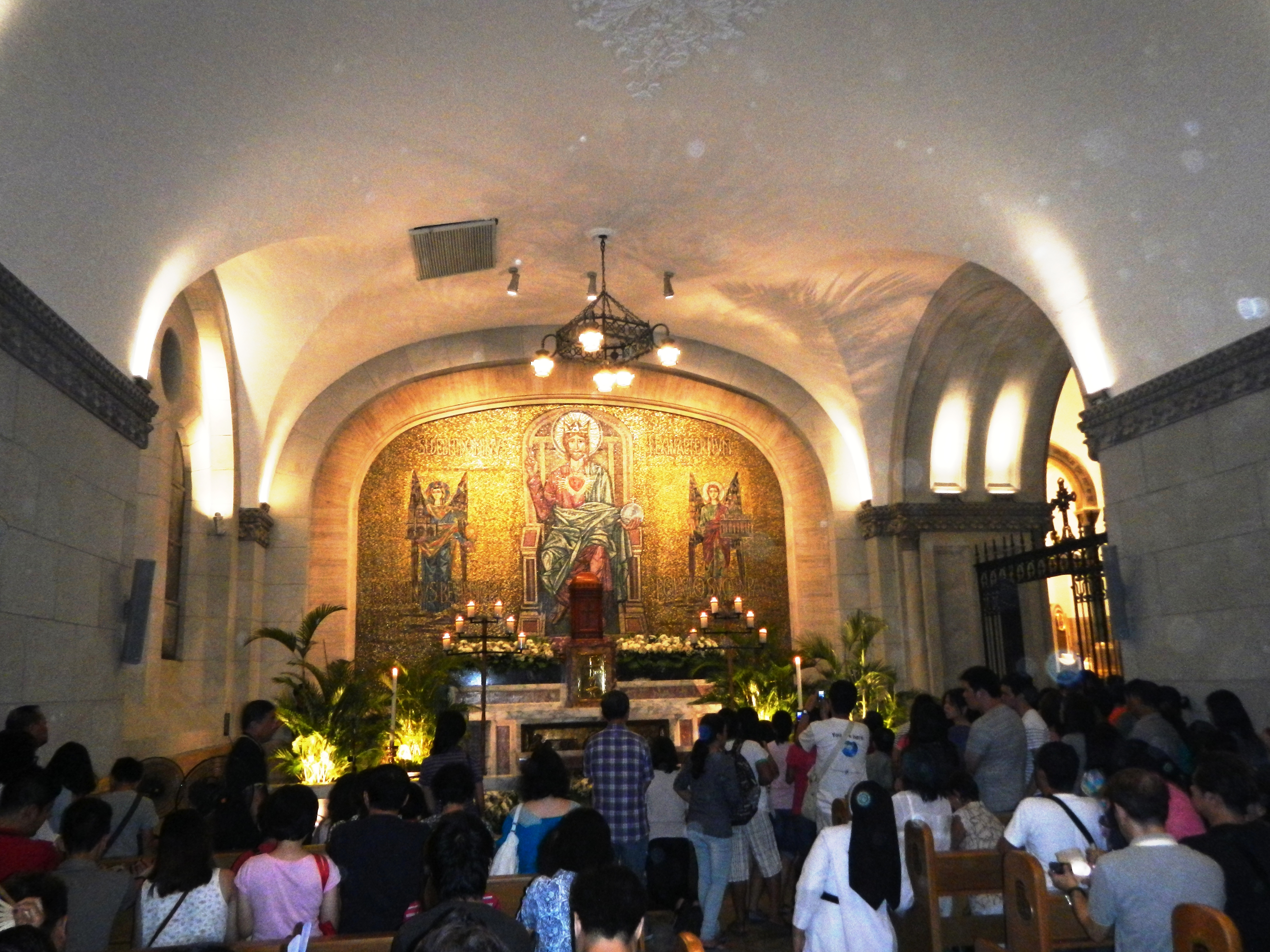 Manila Cathedral, Altar of Repose - Blessed Sacrament, 2014 Maundy Thursday, in the Philippines: Mass of the Lord's Supper and Chrysm Mass [1] including Foot washing by Cardinal Luis Antonio Tagle in Manila Cathedral).